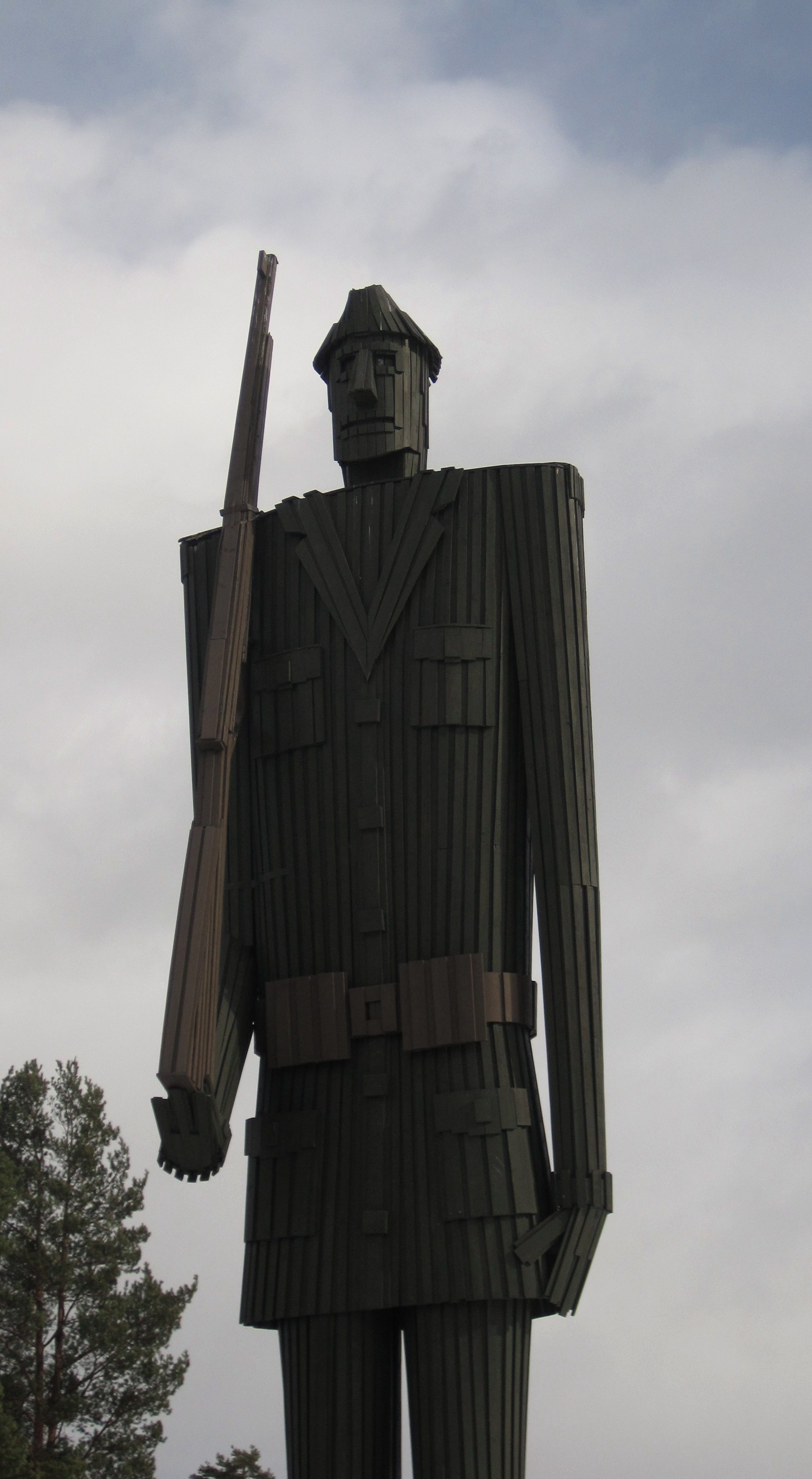 Wooden Soldier in Charlottenberg